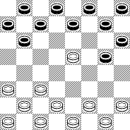 Opening "Igra Matasova—Petrova" (Игра Матасова — Петрова) in russian checkers